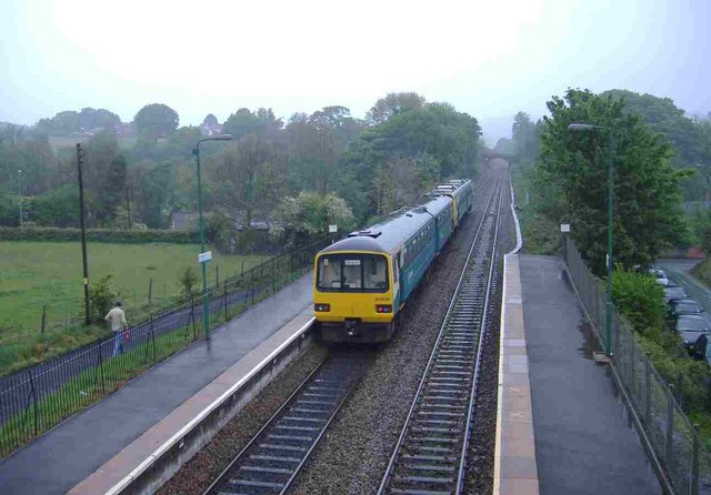 Pengam railway station Original description: Cardiff to Bargoed train, at Pengam